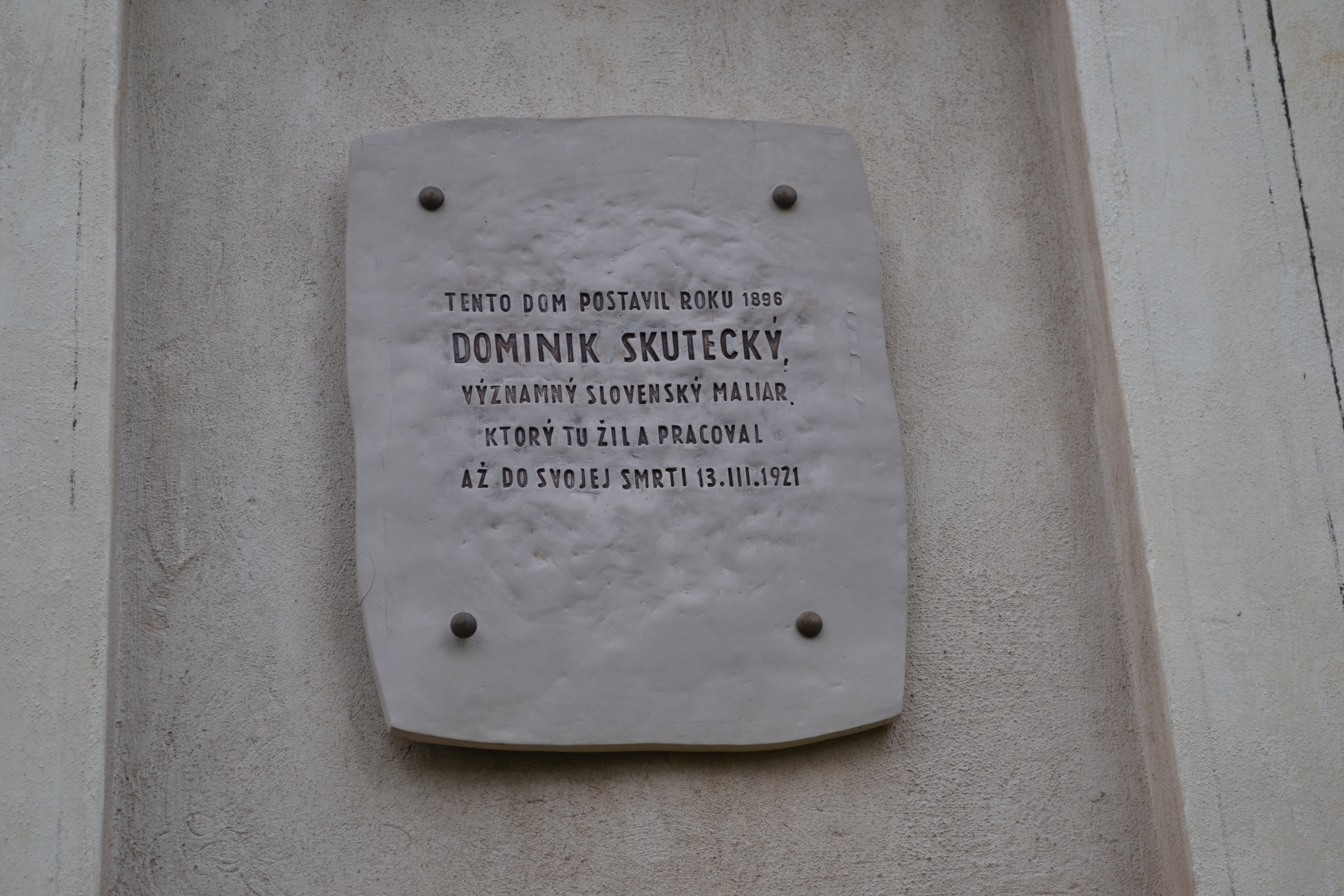 Memorial plaque, Horná street 55, Banská Bystrica